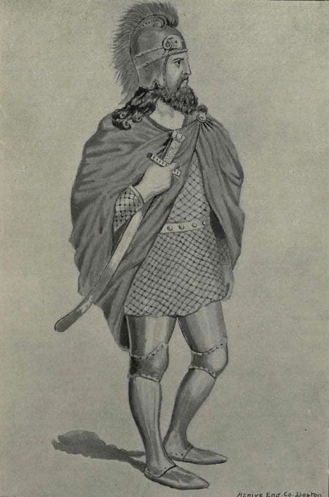 Portrait of Vardan Mamikonyan from an «Illustrated Armenia and Armenians»